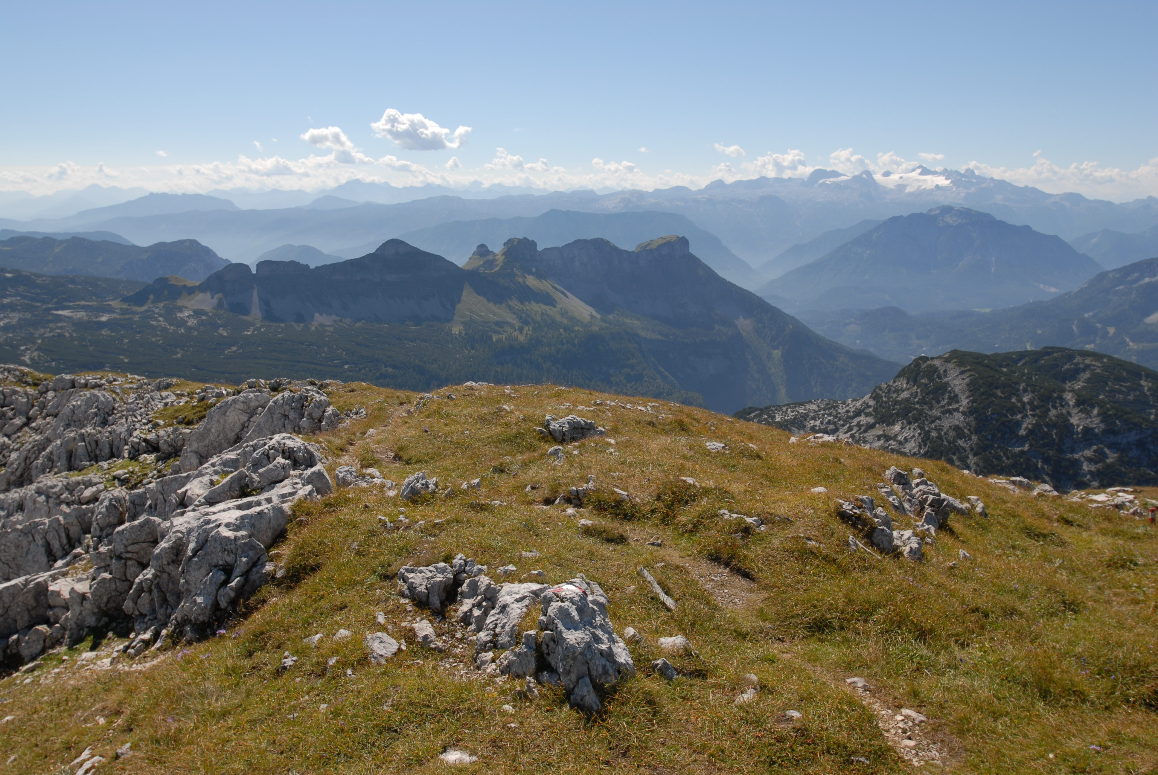 View from Schönberg to the Augstkamm (Bräuningscharte [left]- Bräuningzinken - Atterkogel - Greimuth - Hochanger - Loser [right]), Dachstein in the background right.